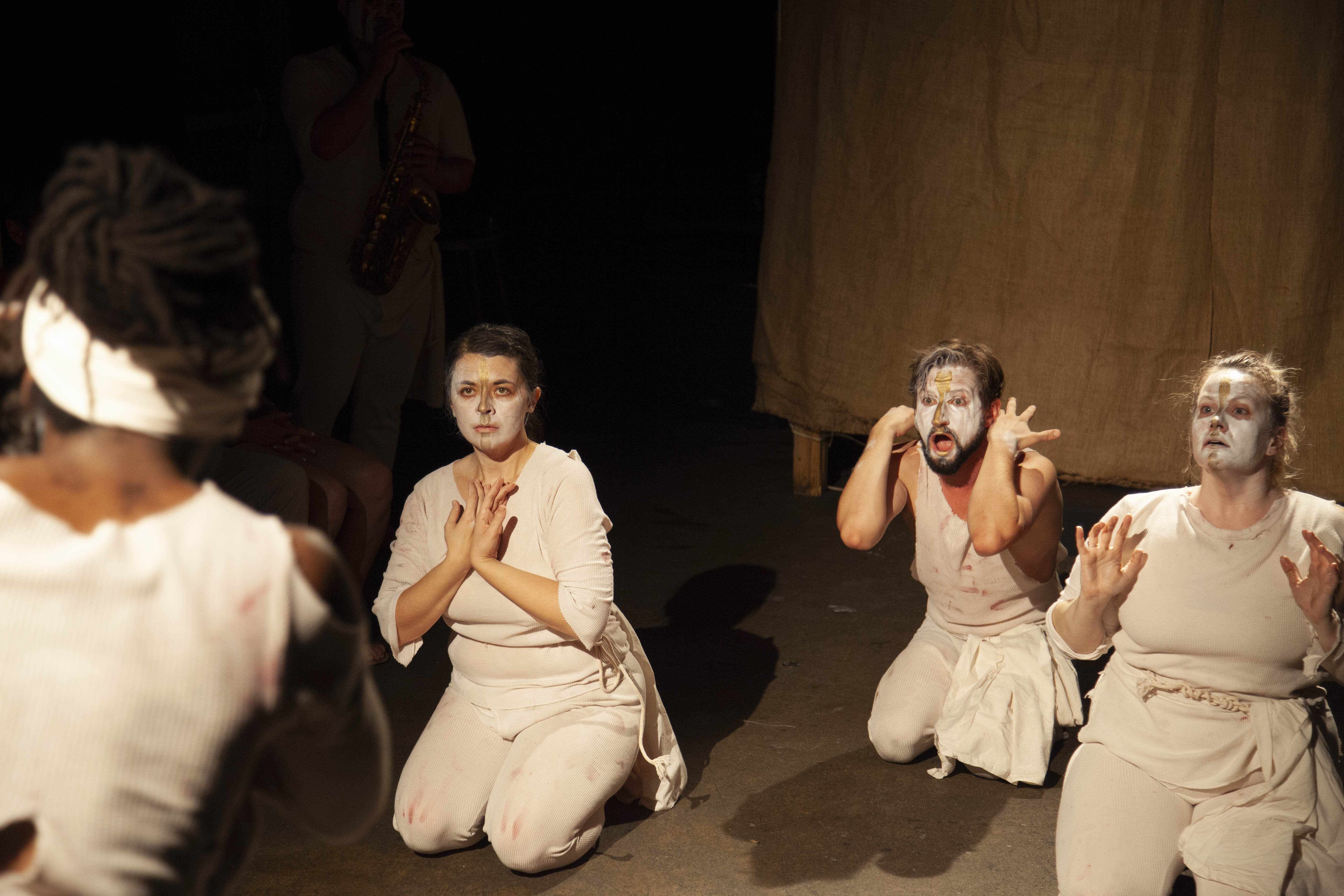 produced by Stairwell Theater